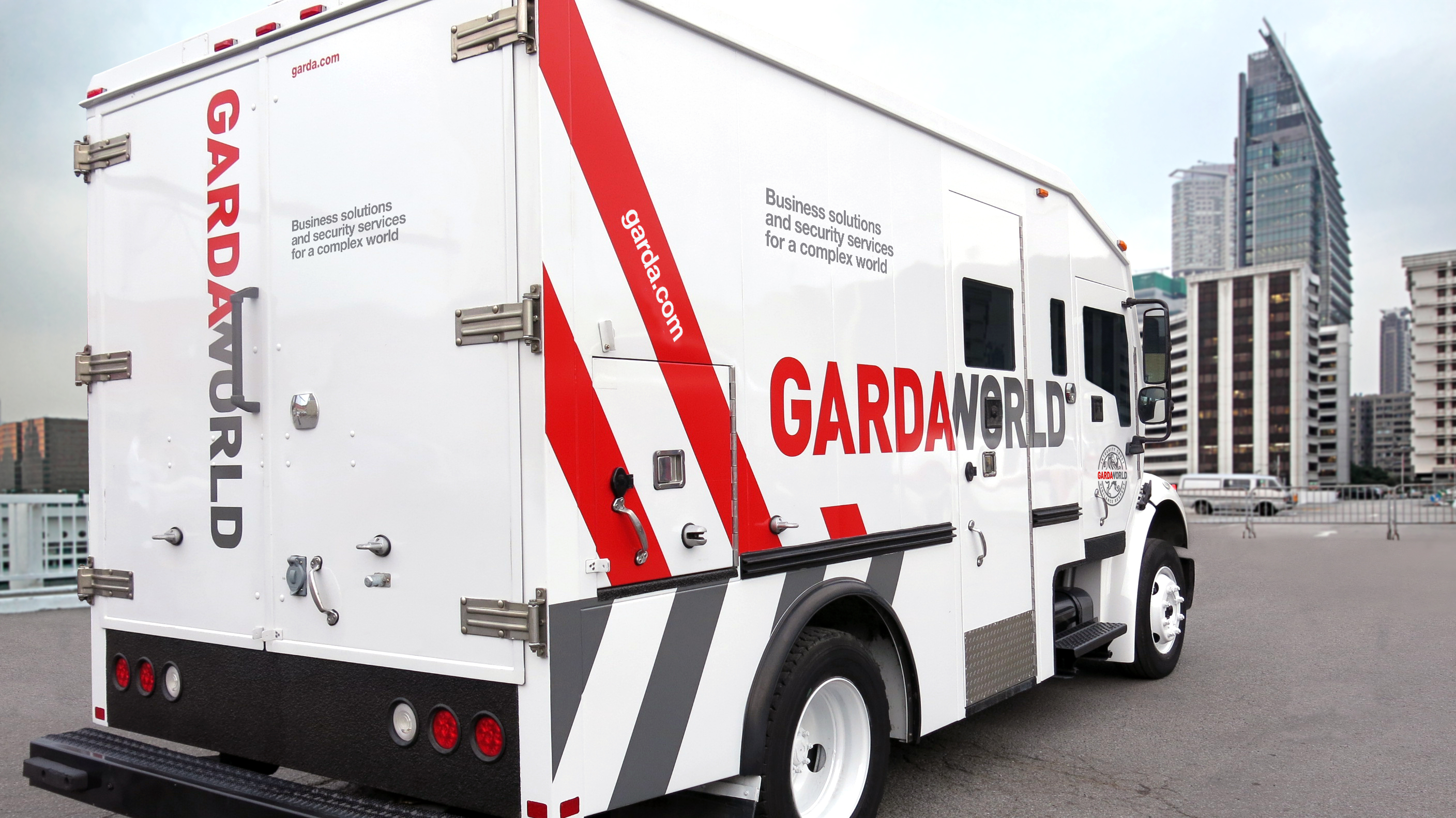 GardaWorld Armored Truck in Toronto